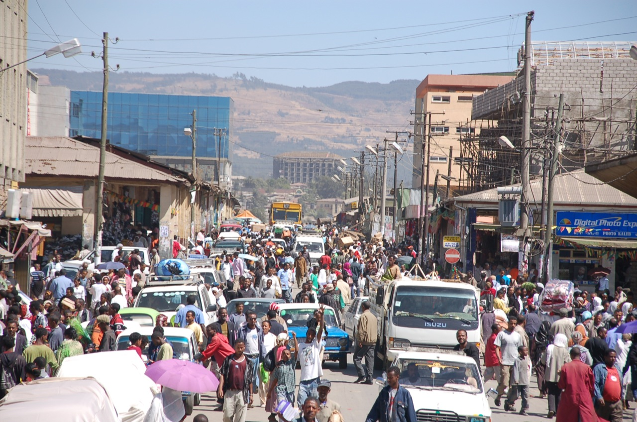 Street in Addis Abeba